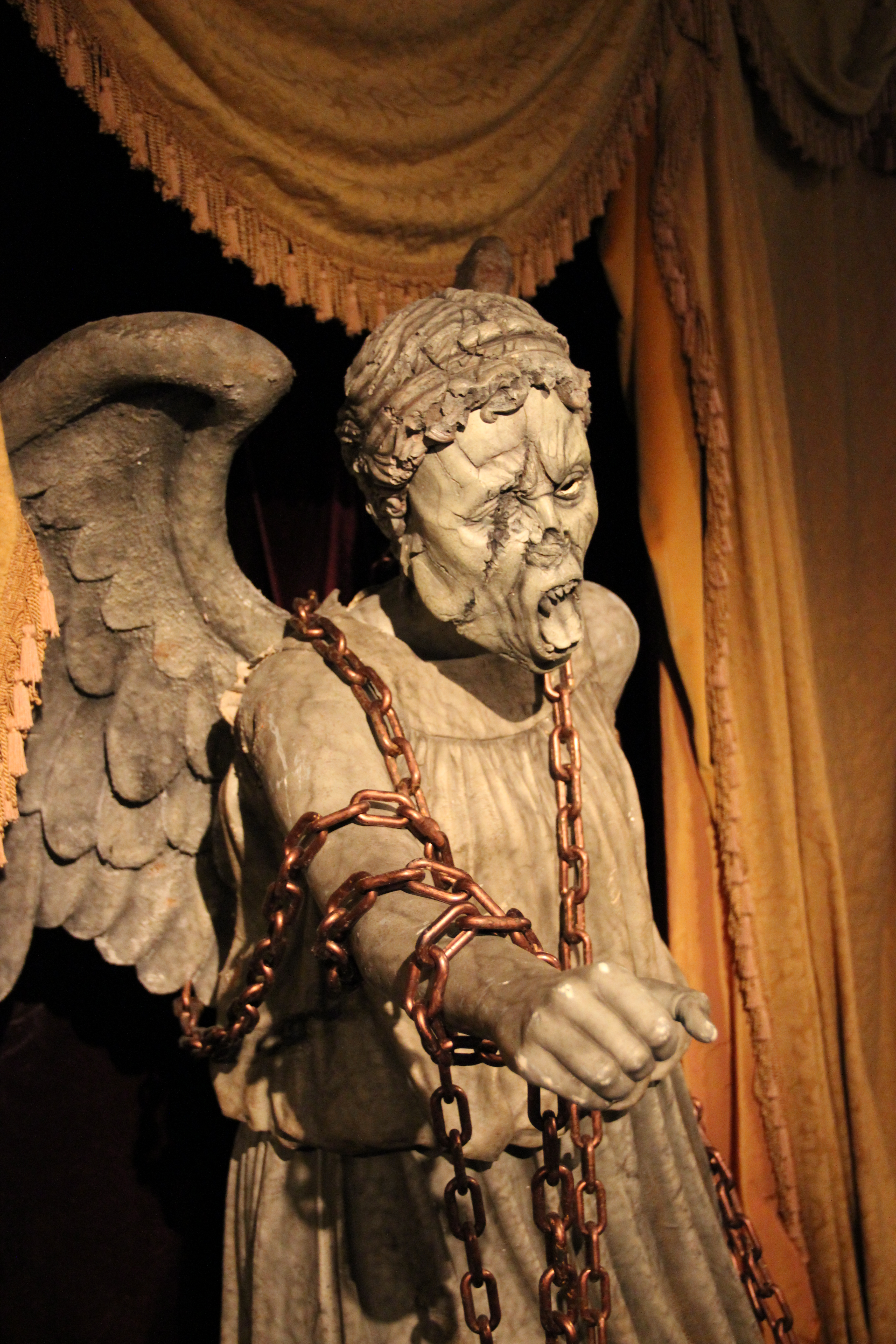 Weeping Angels. Doctor Who Experience